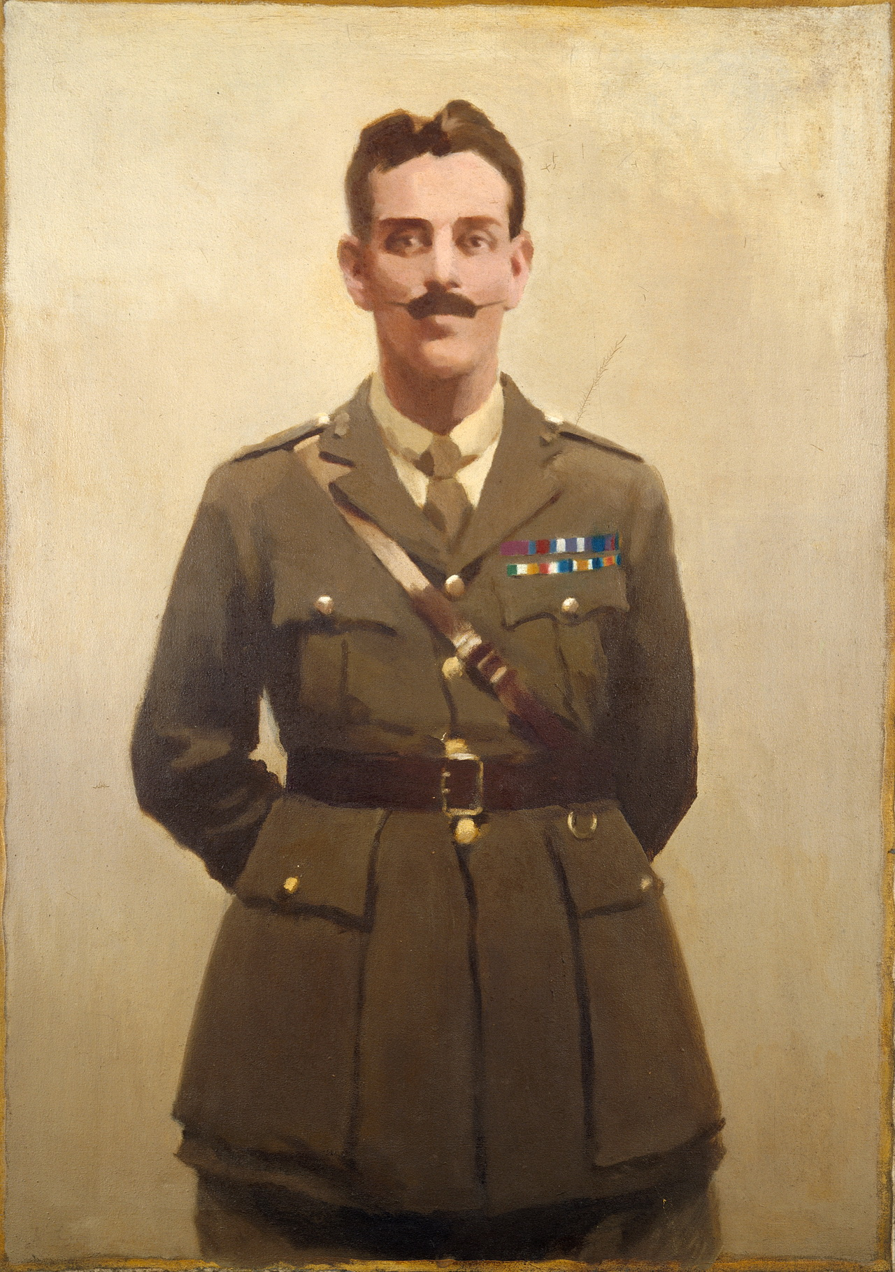 Alfred Shout was born in Wellington, New Zealand in August 1881. After being privately educated until 1891 Alfred went to school in Newman, a tiny settlement north of Masterton. At the outbreak of the Boer War Alfred was anxious to join up, but almost certainly at the age of 18 he would have been regarded as too young and inexperienced for the early New Zealand contingents. Alfred and his half-brother Bill paid their own way to South Africa where Alfred enlisted with the Border Horse Regiment on 17 Feb 1900. After the war he stayed on in South Africa continuing his military service in the Cape Field Artillery. In 1905 he married an Australian girl, Rose Alice Howe, and together with daughter Florence they migrated to Australia in 1907. He maintained his interest in the military, immediately joining the 29th Infantry Regiment of the Citizens Military Force. Following the outbreak of the First World War, Shout transferred to the newly raised Australian Imperial Force on 27 August 1914 and was posted to the 1st Battalion as a second lieutenant. Shout's battalion took part in the original landing at Gallipoli on 25 April 1915 and he was wounded on the first day. He was wounded four times before the August Offensive, and throughout his time in Gallipoli, Shout exhibited outstanding bravery and leadership. He was awarded the Military Cross, Mentioned in Despatches, promoted to Captain and awarded the Victoria Cross, all in the space of four months. Shout was mortally wounded on 9 August 1915 during trench fighting at Lone Pine. On 11 August Alfred Shout died of his wounds aboard the hospital ship Neuralia and was buried at sea. He was posthumously awarded the Victoria Cross in October 1915, becoming the most highly decorated Australian soldier on Gallipoli. Oil, 870 x 1220mm (Posthumous Portrait) (Archives Ref: AAAC 898, NCWA 530, R22498337)